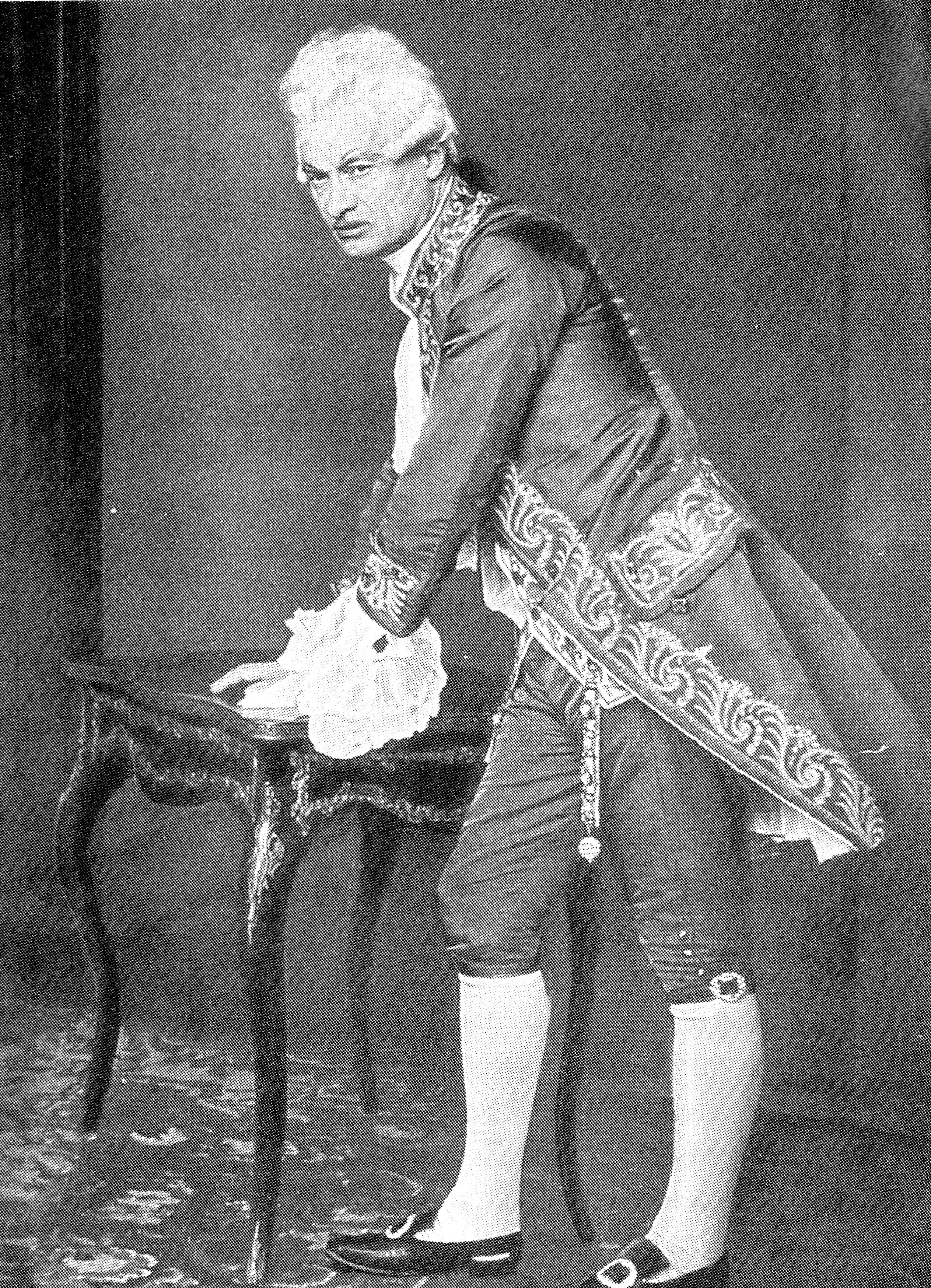 The Austrian actor Josef Kainz as Franz Moor in "The Robbers" by Friedrich Schiller at Burgtheater Vienna, around 1908